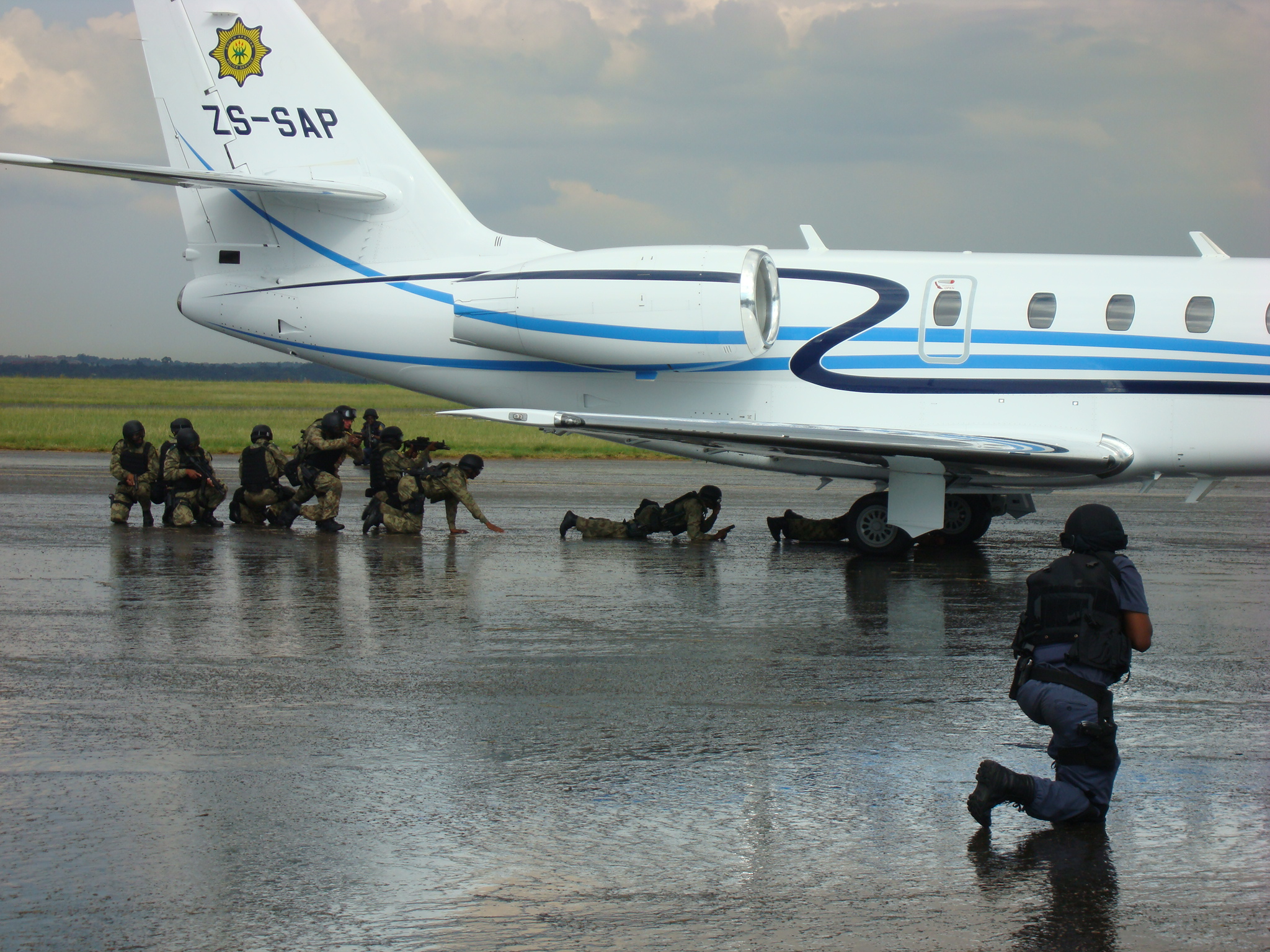 Excercise Shield 3: Security Forces demonstrate their readiness to secure airspace during the 2010 FIFA World Cup